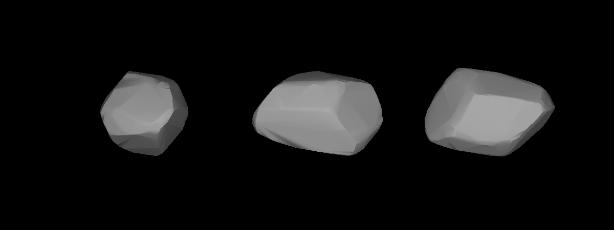 A three-dimensional model of 1450 Raimonda that was computed using light curve inversion techniques.